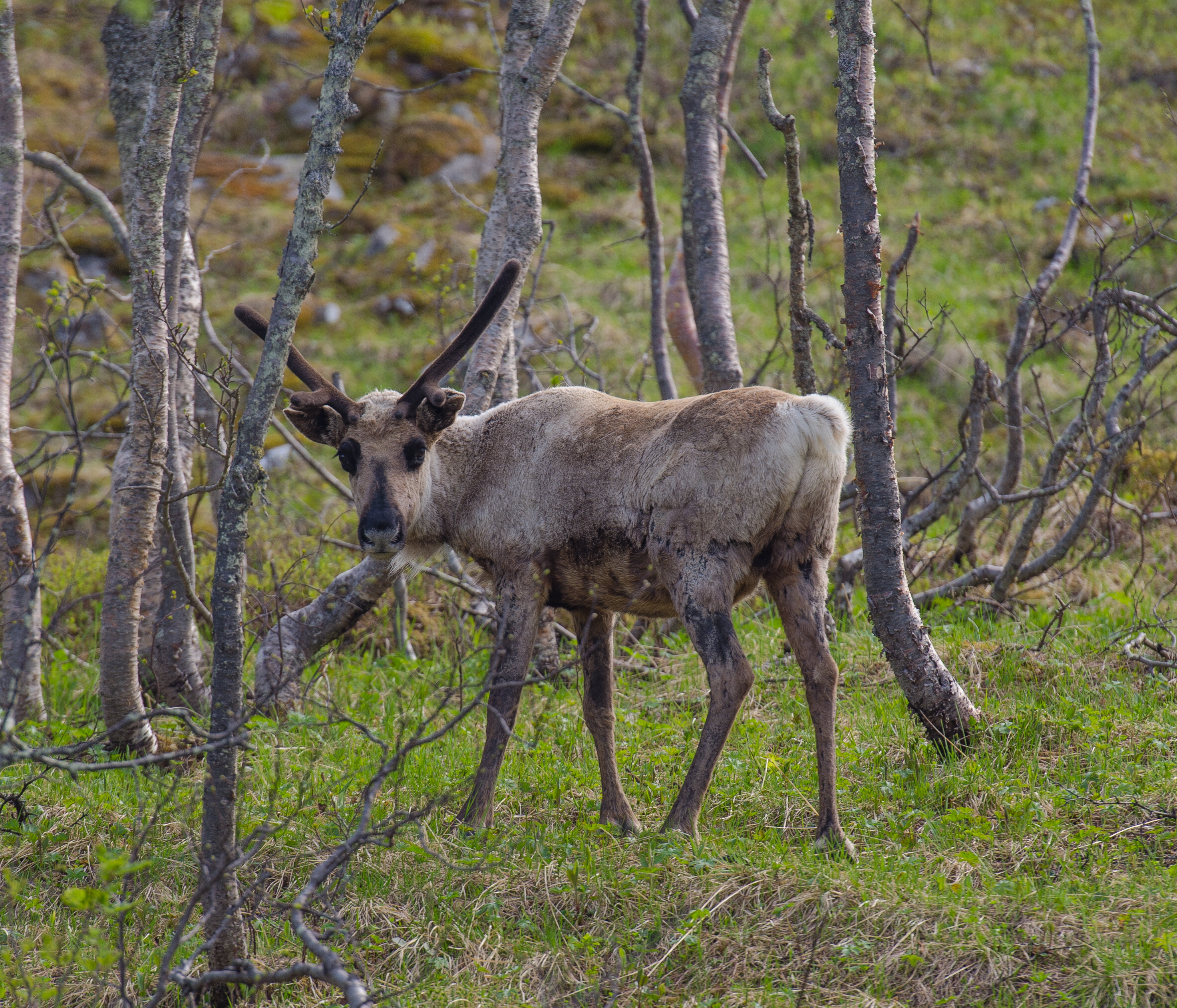 Reindeer (Rangifer tarandus) in Ljungdalen, Berg Municipality, Jämtland County, Sweden.